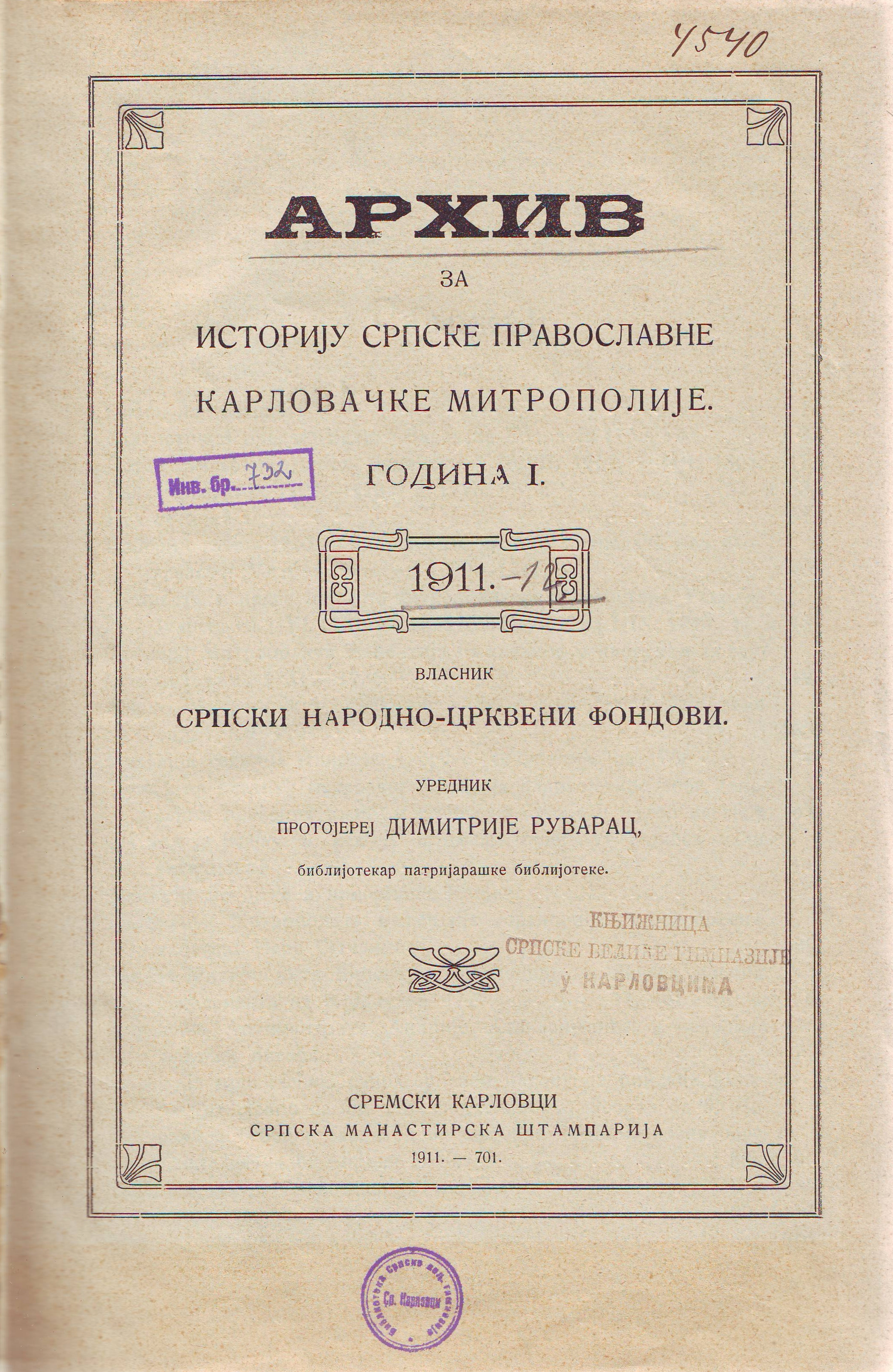 Cover of the magazine Arhiv za istoriju Srpske pravoslavne karlovačke mitropolije (1911) dedicated to history of the Metropolitanate of Karlovci. Srpski (latinica): Naslovna strana časopisa Arhiv za istoriju Srpske pravoslavne karlovačke mitropolije (1911) posvećenog istoriji Karlovačke mitropolije.